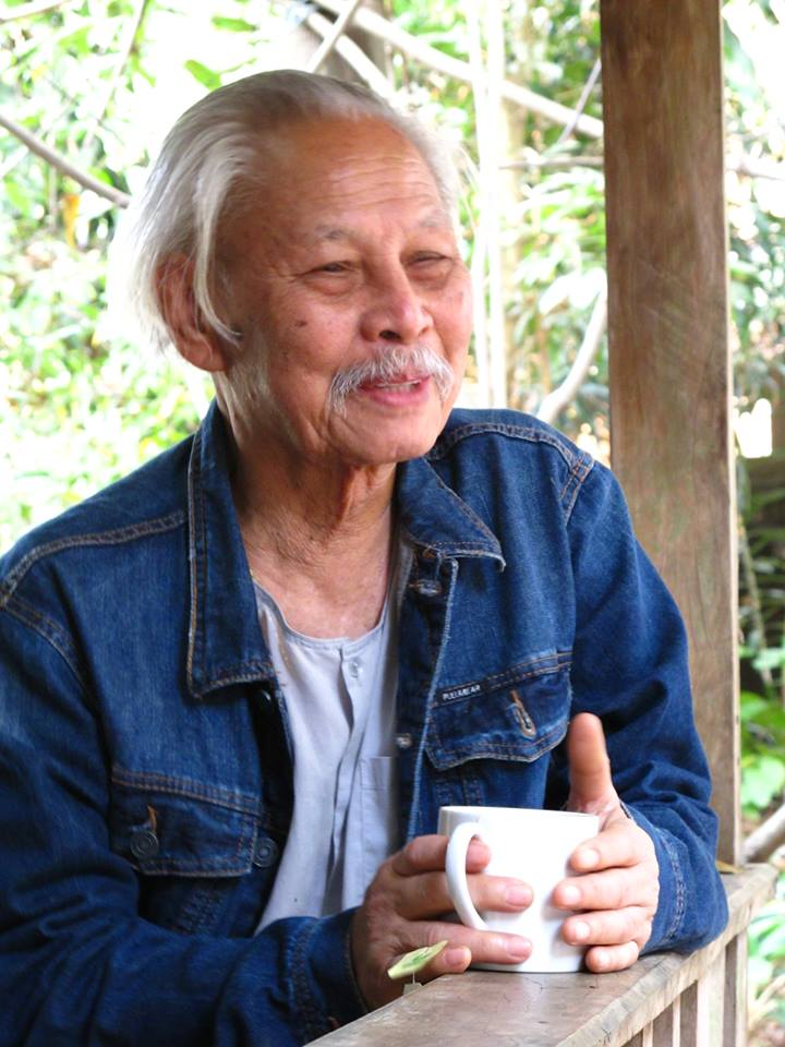 Khamsing Srinawk at his home in Rai Tharakhasem, Pak Chong, Nakhon Ratchasima